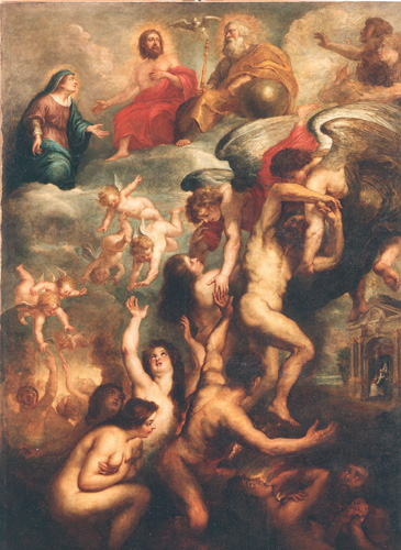 Purgatory.